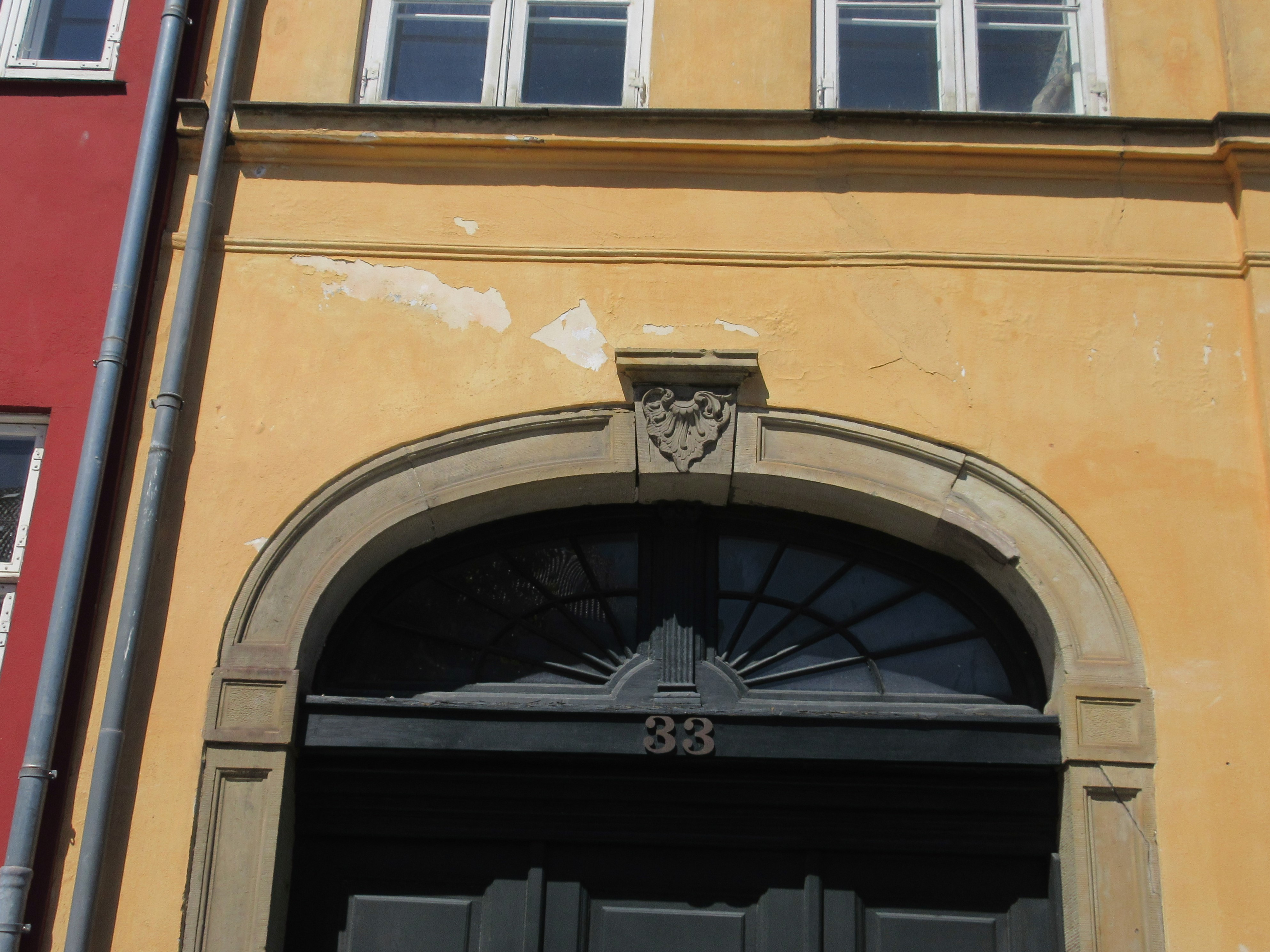 Overgaden Neden Vandet 33 in Copenhagen, Denmark